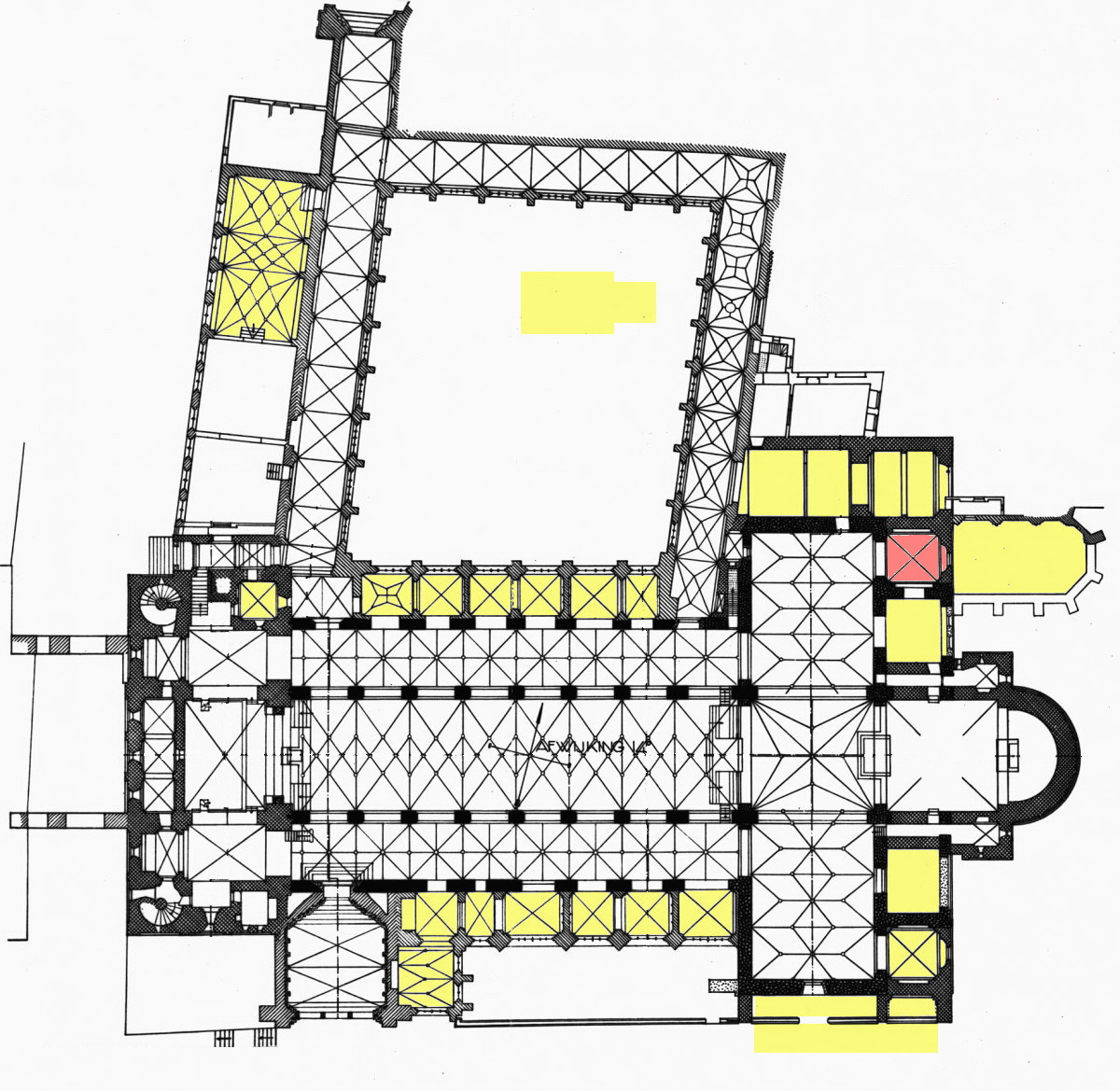 Locator map of chapels of the Basilica of Saint Servatius in Maastricht, the Netherlands. This map by an unknown author was first published in 1926 in Van Nispen tot Sevenaers De monumenten in de gemeente Maastricht, Deel 1, and donated to Wiki Commons by Rijksdienst voor het Cultureel Erfgoed on 7 January 2013. All colouring and other edits are by Kleon3. In yellow all 17 chapels of Sint-Servaasbasiliek in past and present. In red the chapel of Saint Eloy and Saint Marcouf, the northern most of the transept chapels.